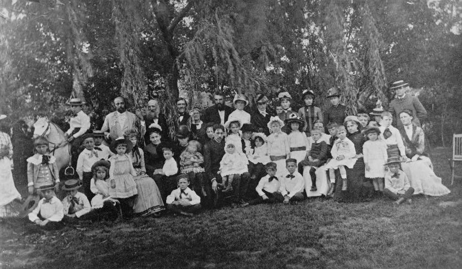 Alexander Graham Bell with teachers and students of the Scott Circle School for deaf children, posed outdoors in Washington, D.C. Title transcribed from caption list in album. In album: Photographs of Alexander Graham Bell : Selected by him for preservation in the Beinn Bhreagh Recorder. Forms part of: Gilbert H. Grosvenor Collection of Photographs of the Alexander Graham Bell Family (Library of Congress).